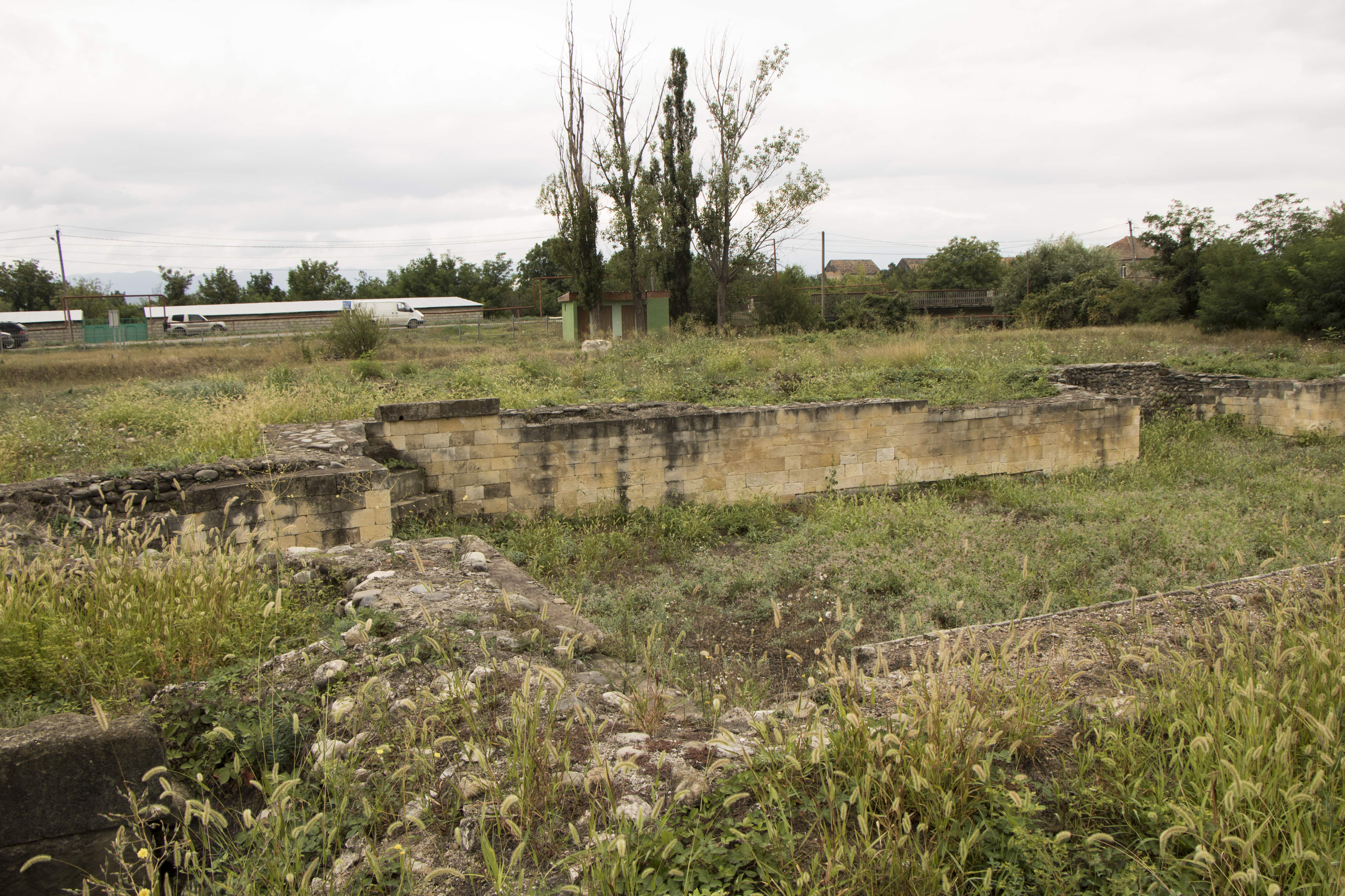 Dzalisi - swimming pool